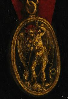 Holbein Ambassadeurs detail ordre de Saint Michel